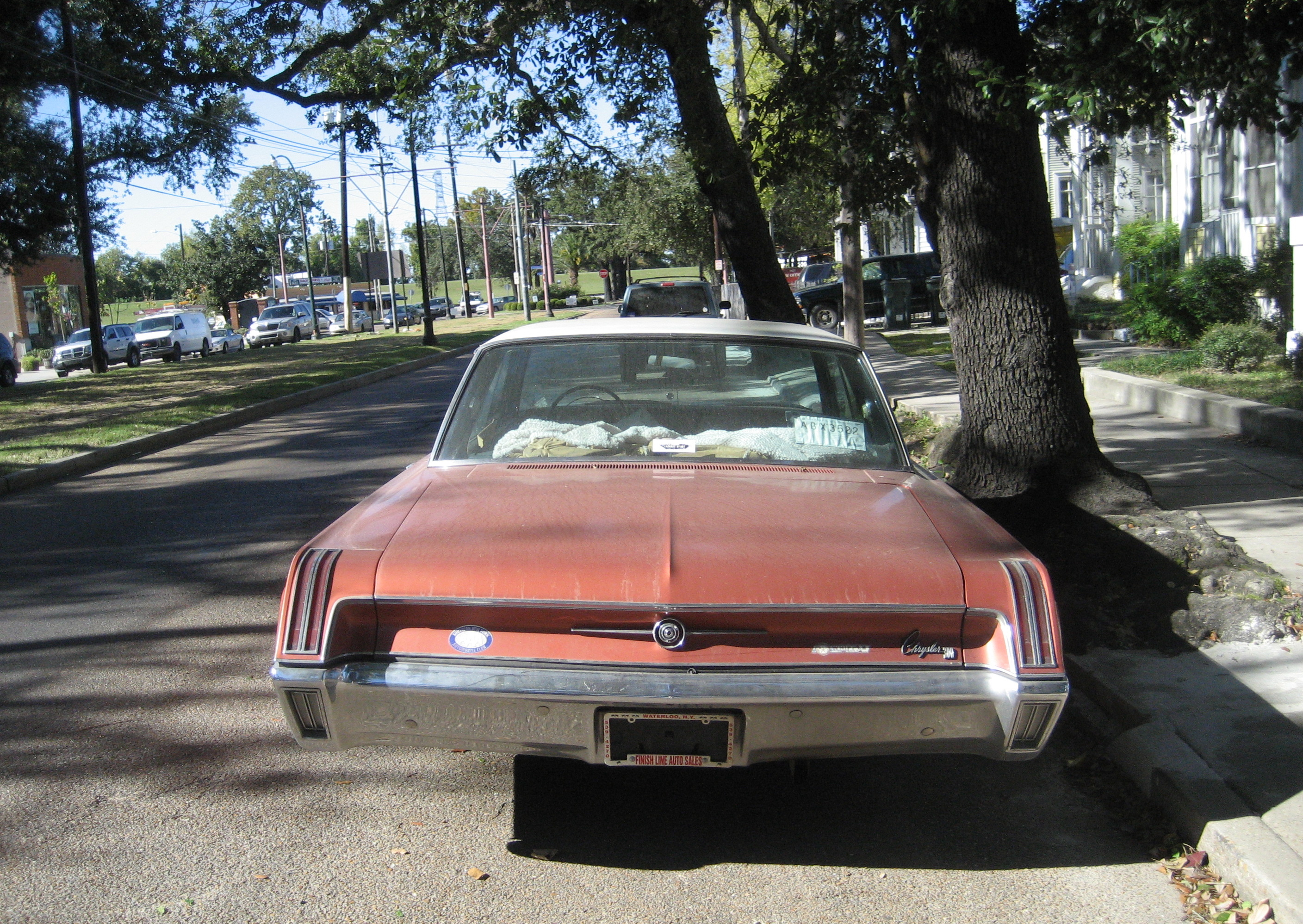 Carrollton Riverbend neighborhood of New Orleans. 1967 Chrysler 300 on St. Charles Avenue. Mississippi River levee visible in distance.